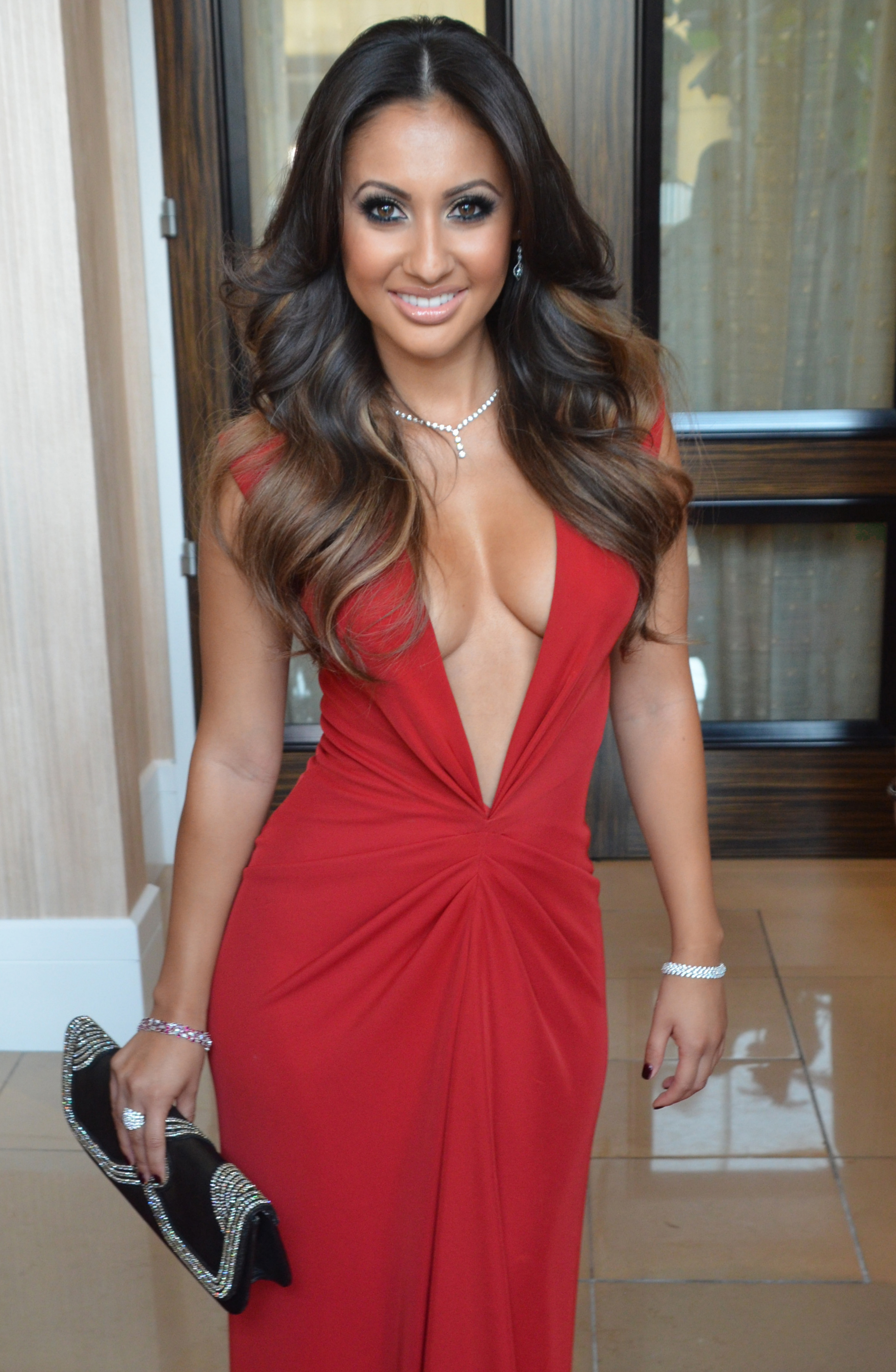 Francia Raisa at the 27th Annual Imagen Awards Red Carpet 2012.